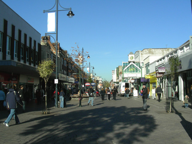 South Street, Romford Looking north towards the Market Place from junction with Western Road